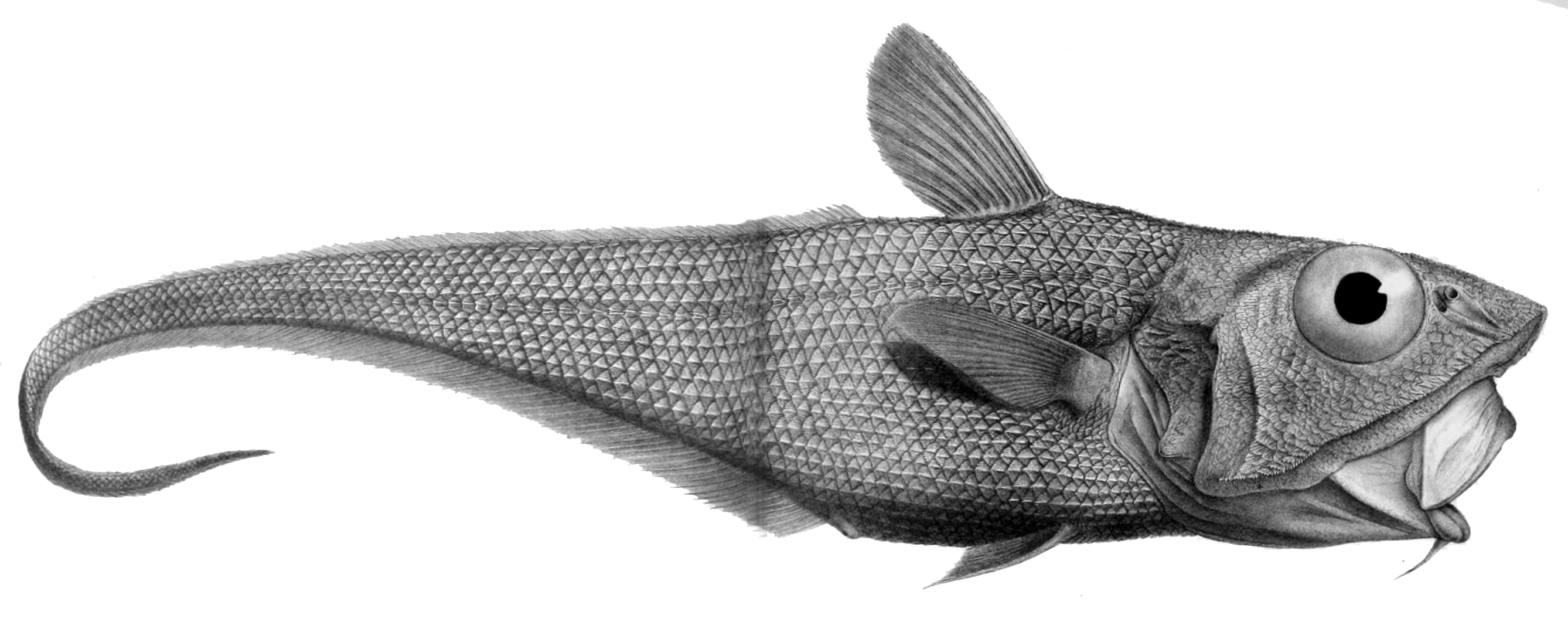 Macrourus carinatus